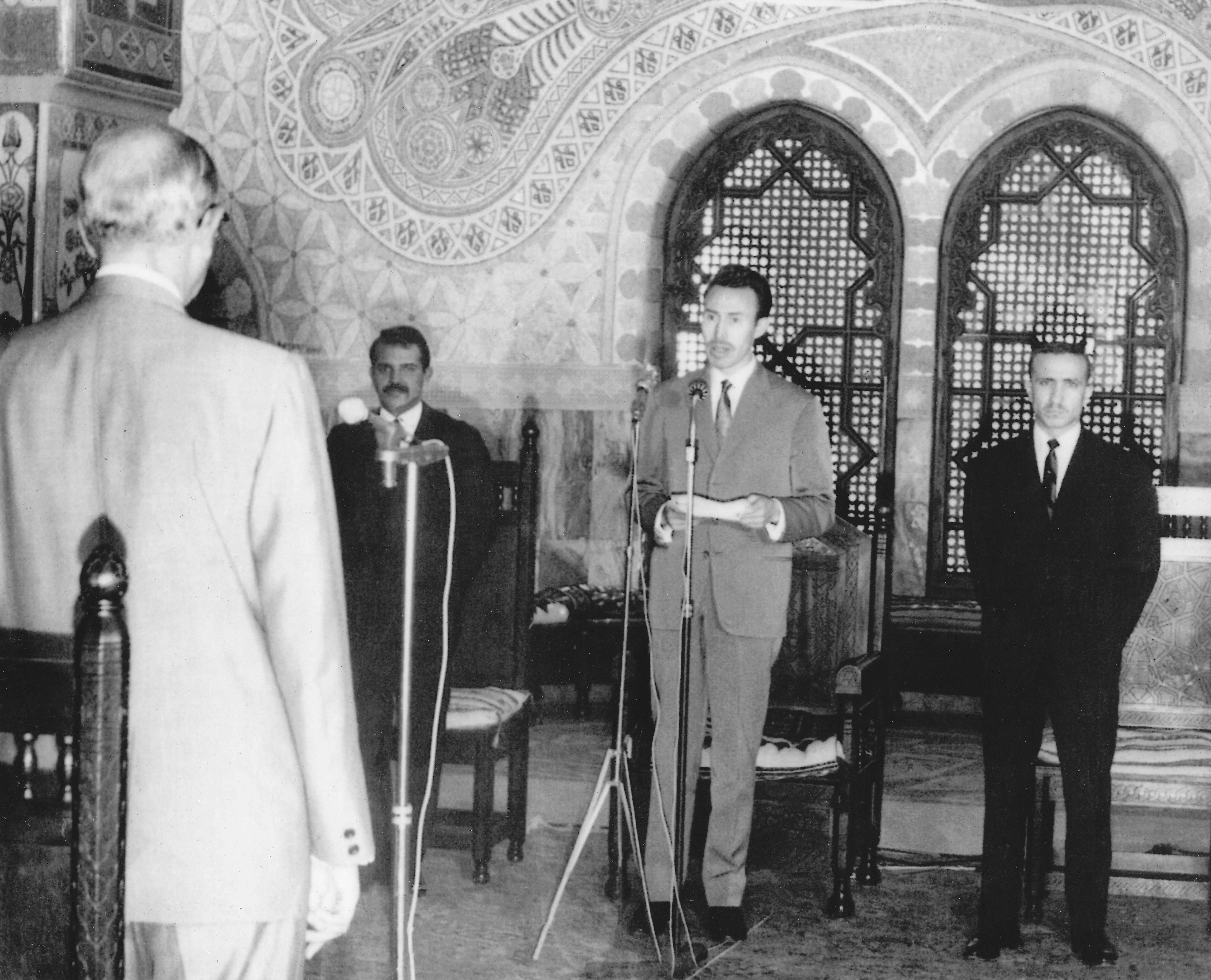 Public ceremony in which US Ambassador présents his letter of credence to the Algerian government represented here by president Boumediene, the minister of foreign affairs Mr. Bouteflika and the Chief of Staff of the President, Mr Khatib